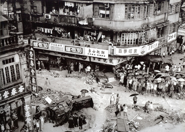 June 12 floods in 1966, Hong Kong.